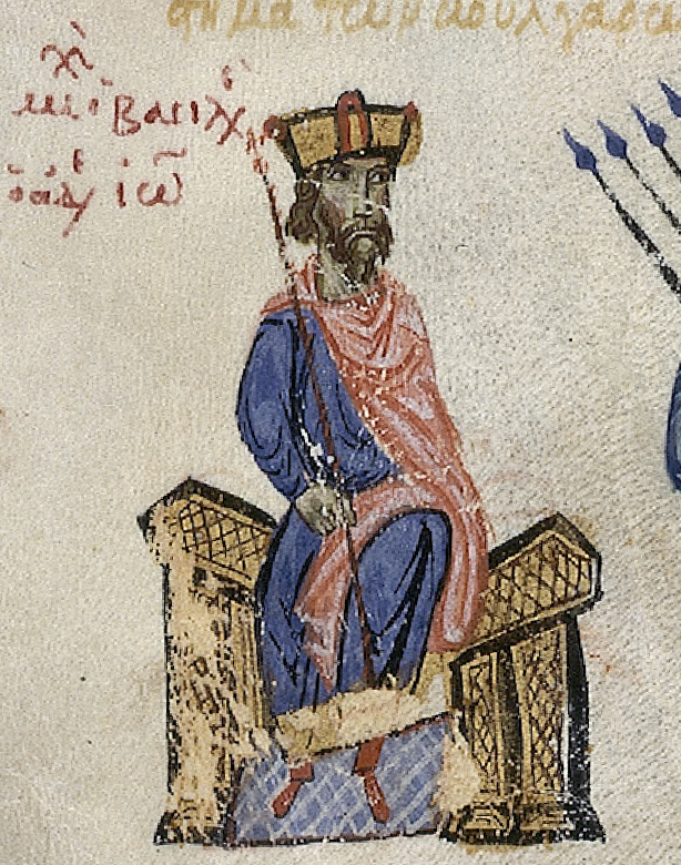 Michael IV the Paphlagonian (Scylitzes chronicle. Folio 217.v)